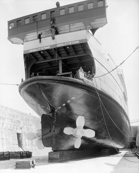 Stern of the ferry S.S. Charlottetown of Canadian National Railways, built by the Davie Shipbuilding & Repairing Co. Ltd.